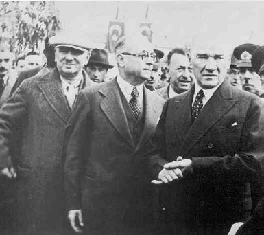 Mustafa Kemal Atatürk and Celal Bayar in Afyon, 20 November 1937Türkçe: Mustafa Kemal Atatürk ve Celal Bayar Afyon'da iken, 20 Kasım 1937